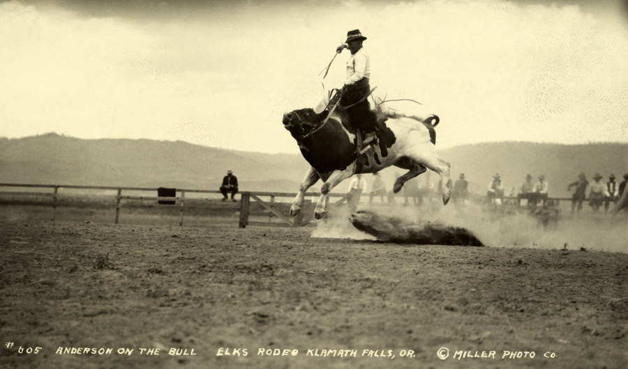 A bull riding cowboy holds tight as the bull lunges airborne, Oregon, 1916. Photograph by Miller Photo Co., National Geographic